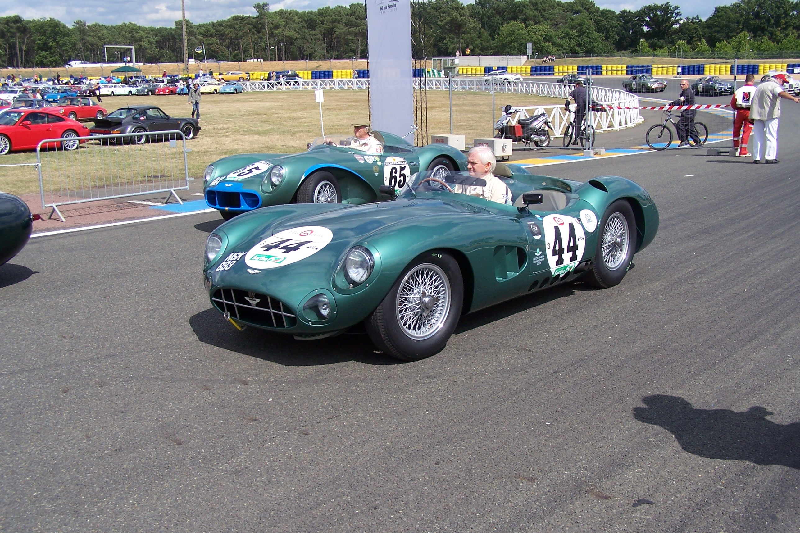 It is an Aston Martin DBR1. Driver is its owner Adrian Beecroft.